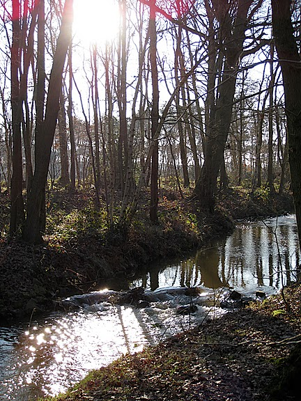 a natural fishtrap in stream 'the Groote Beerze' near Westelbeers in the Aardbossen